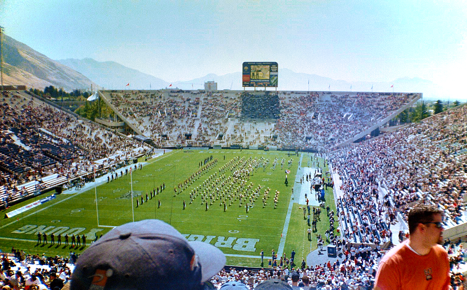 School band performing prior to a BYU football game.